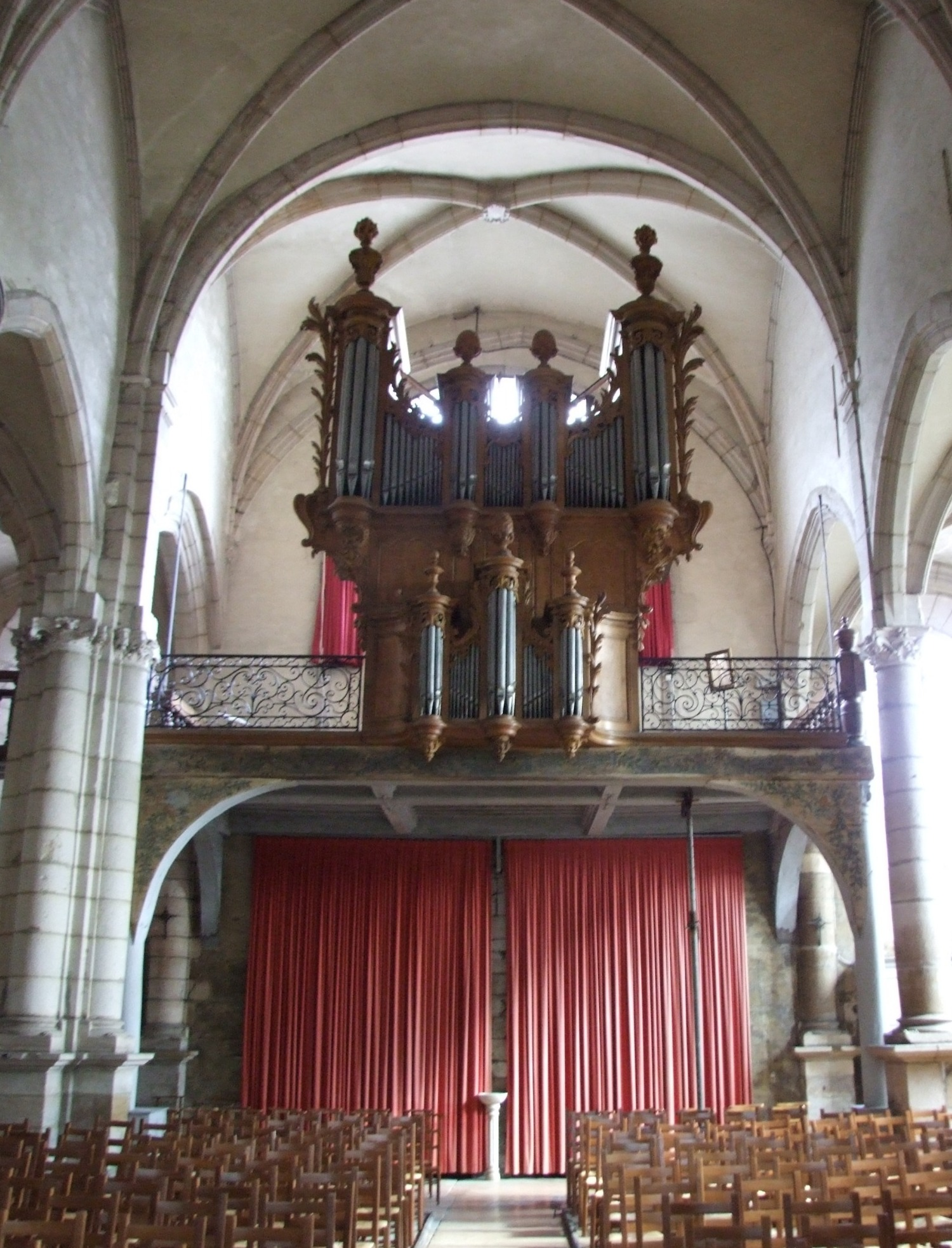 Saint Jean-Baptiste Church, Saint-Jean-de-Losne, Burgundy, FRANCE